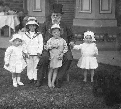 Sir Edwin Thomas Smith 1830-1919 Sir Edwin Thomas Smith with his grandchildren Sir Edwin Thomas Smith, brewer and twice mayor of Adelaide, politician and philanthropist with his grandchildren shortly before his death in 1919.